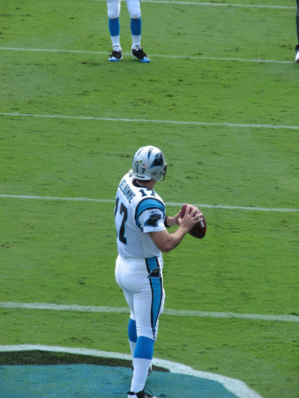 Jake Delhomme, quarterback of the Carolina Panthers warming up before a game against the Chicago Bears at Bank of America Stadium